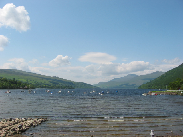 The eastern edge of Loch Tay, at Kenmore, Scotland. Photo taken by Dudesleeper on June 6, 2006.